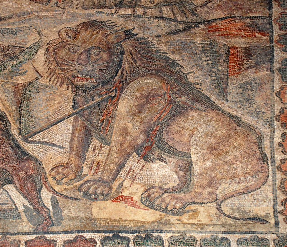 Roman mosaic of hurt lion in roman villa of La Olmeda, Pedrosa de la Vega (Palencia, Castile and León).